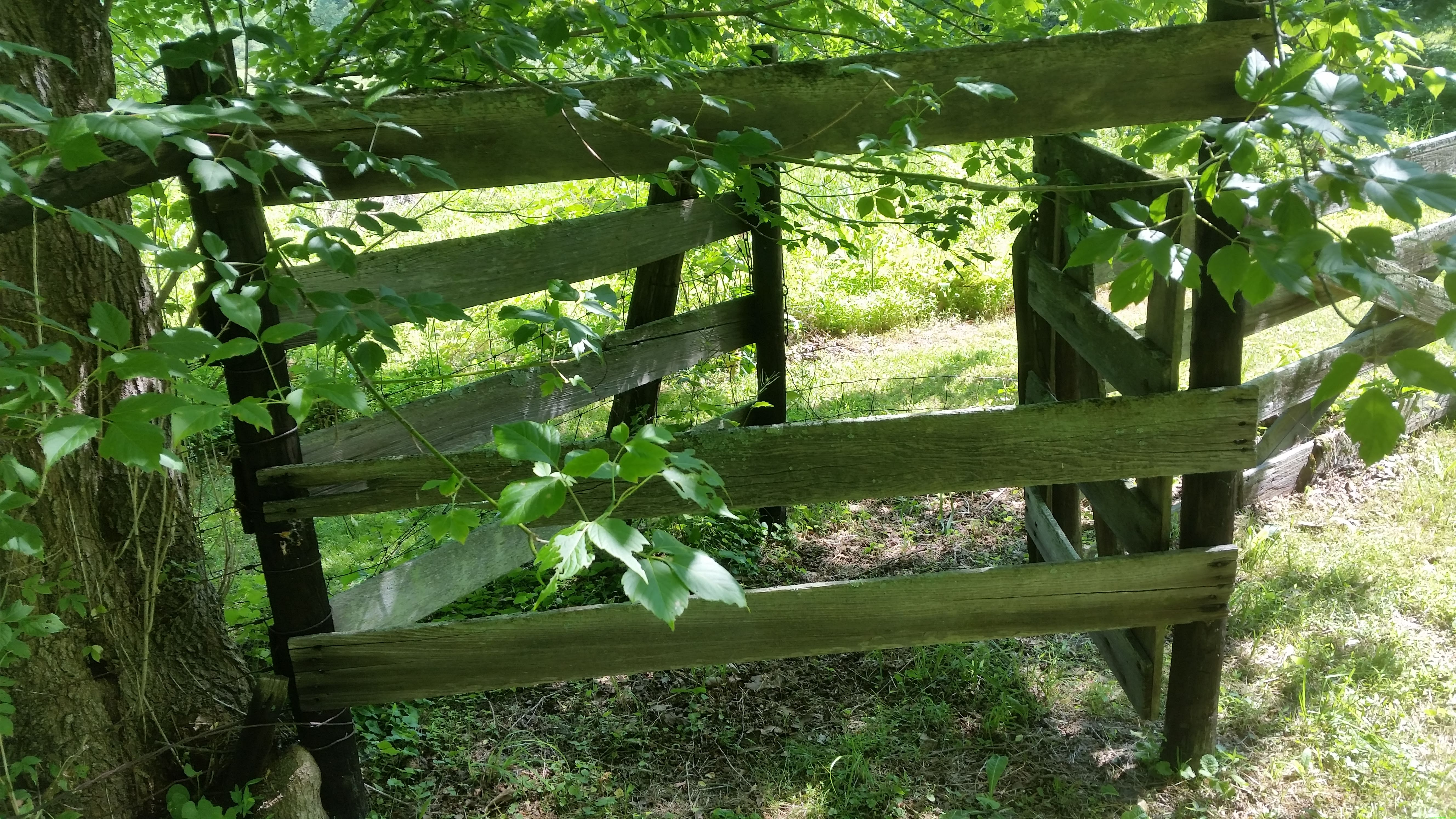 Wooden kissing gate along a fence